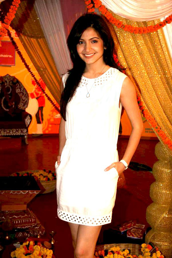 Anushka Sharma at a Band Baaja Baaraat press event